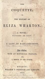 1855 printing of The Coquette under the moniker of Eliza Wharotn